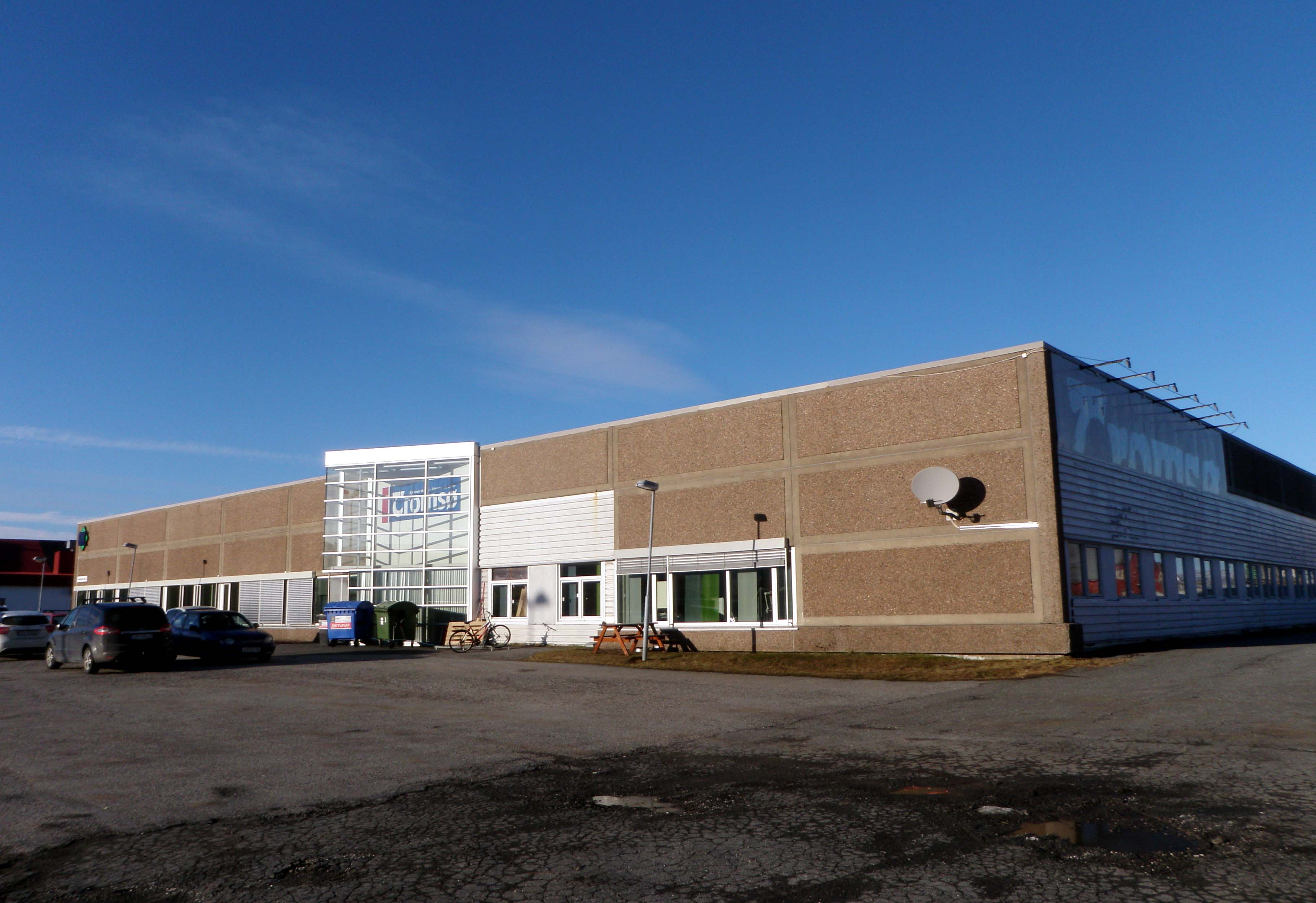 Headquarters of the newspaper Bladet Tromsø in Tromsø, Troms, Norway.